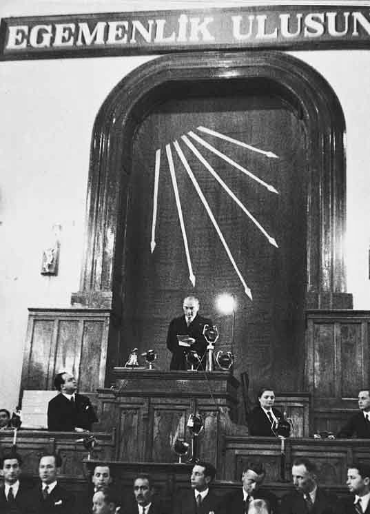 Mustafa Kemal Atatürk, the first president of the Republic of Turkey at the first parliament building.